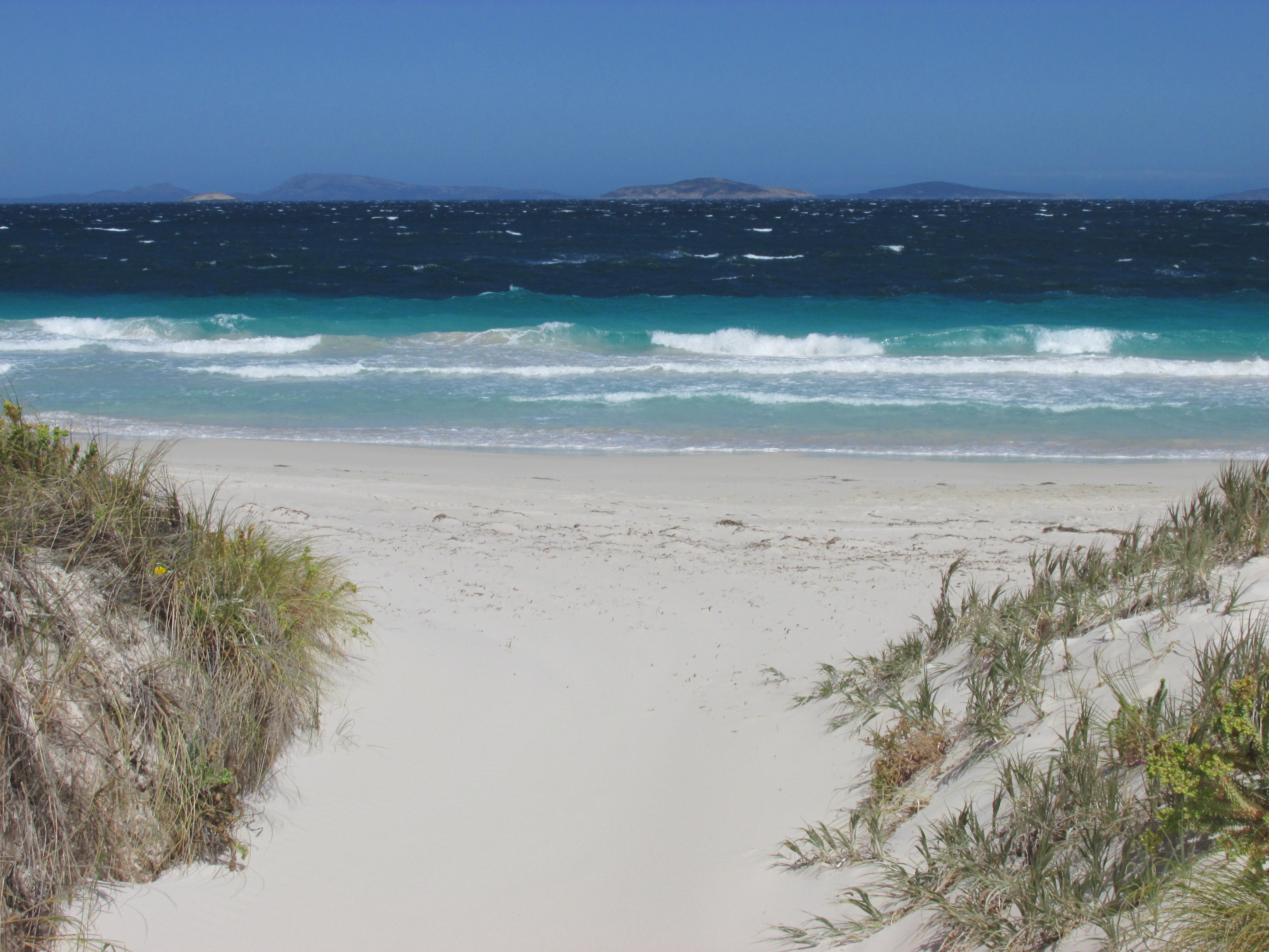 Beach at Chaplin Street, Castletown, Esperance, Western Australia, looking south-east into Esperance Bay, with some islands in the Recherche Archipelago visible.